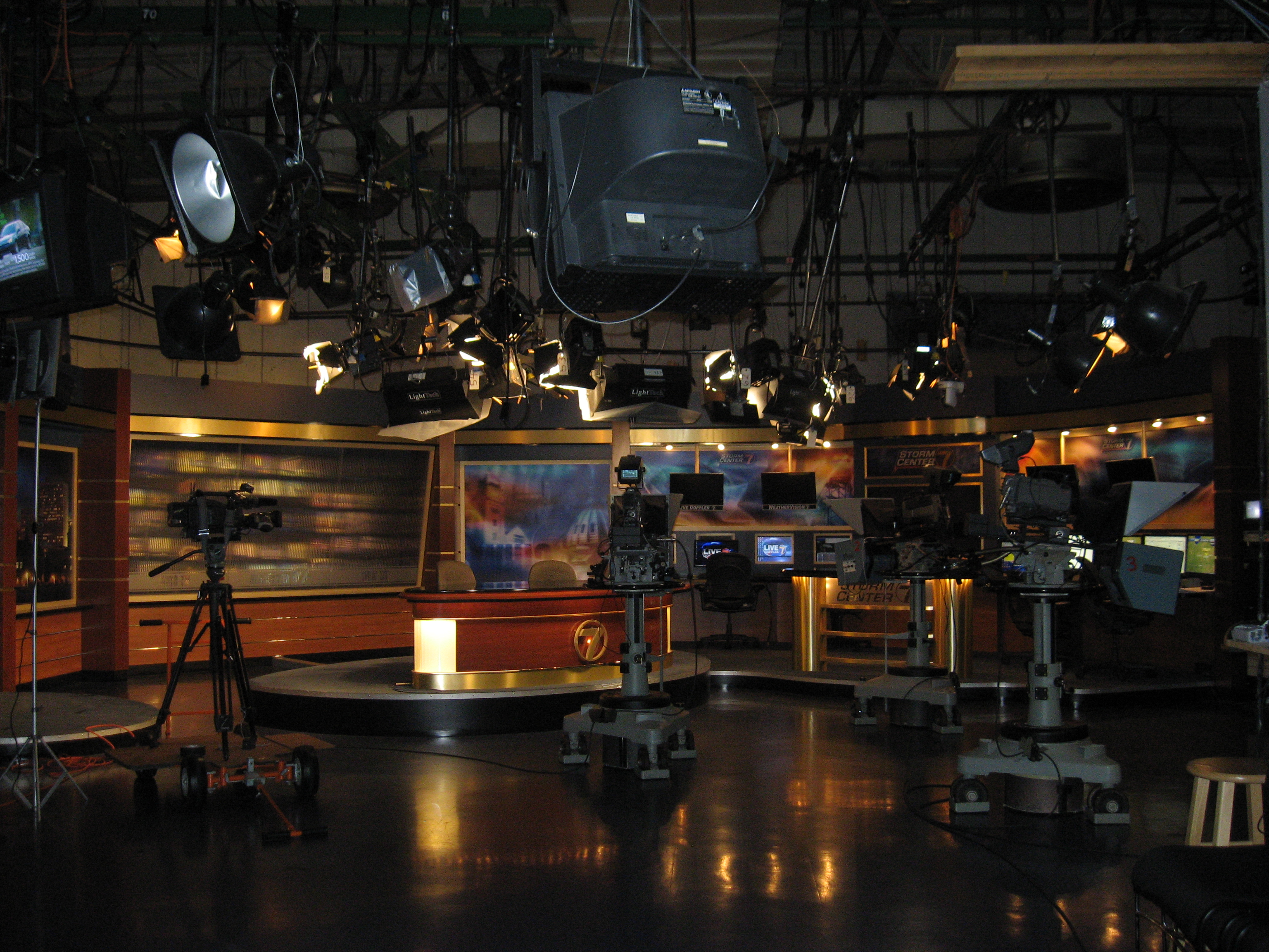 The WHIO-TV News Center 7 news anchor set inside the Cox Enterprises Dayton building (Kettering, USA)